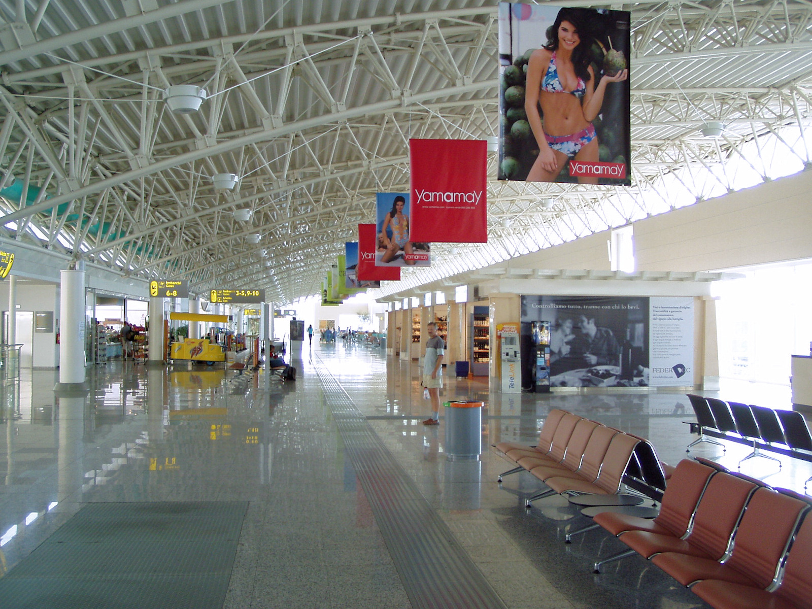 Departures area at Olbia Costa Smeralda Airport, Sardinia, Italy.